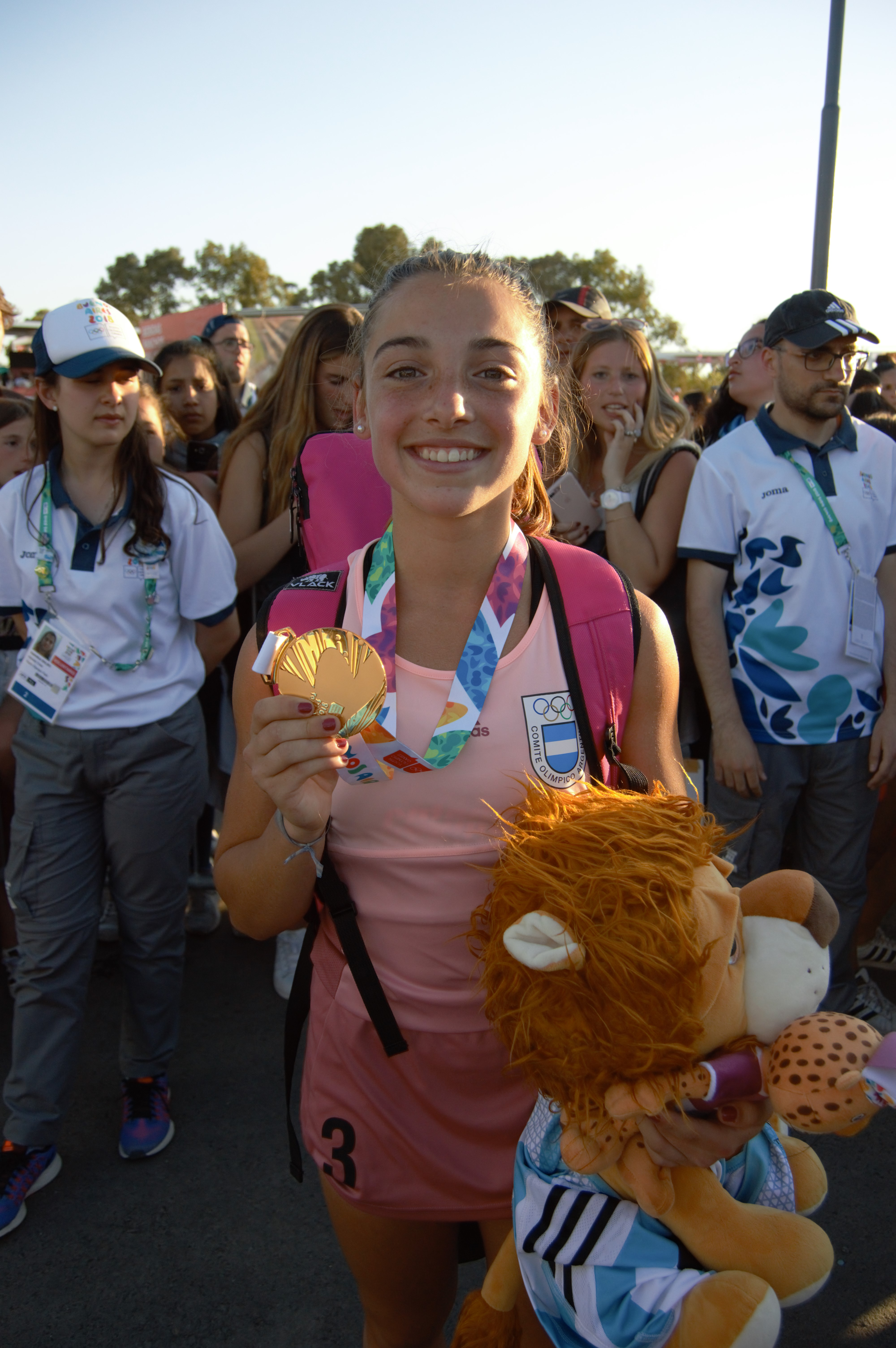 Brisa Bruggesser shows his gold medal after winning the final match of the Hockey 5 tournament at the 2018 Summer Youth Olympics.